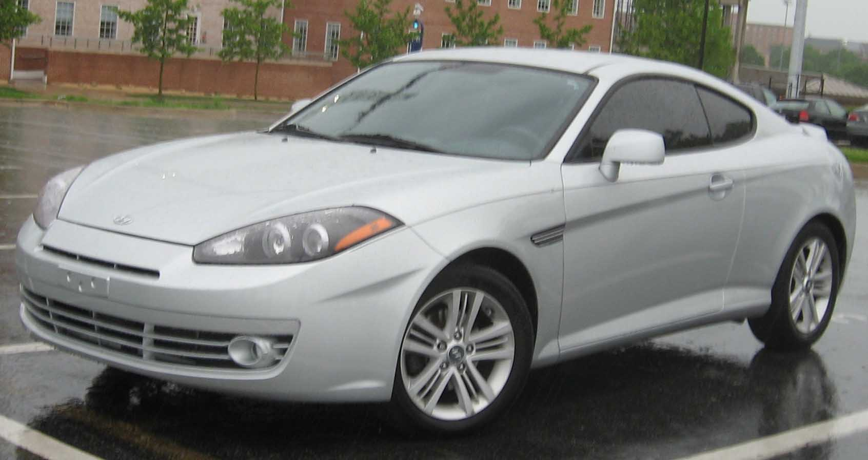 2007-2008 Hyundai Tiburon photographed in College Park, Maryland, USA.